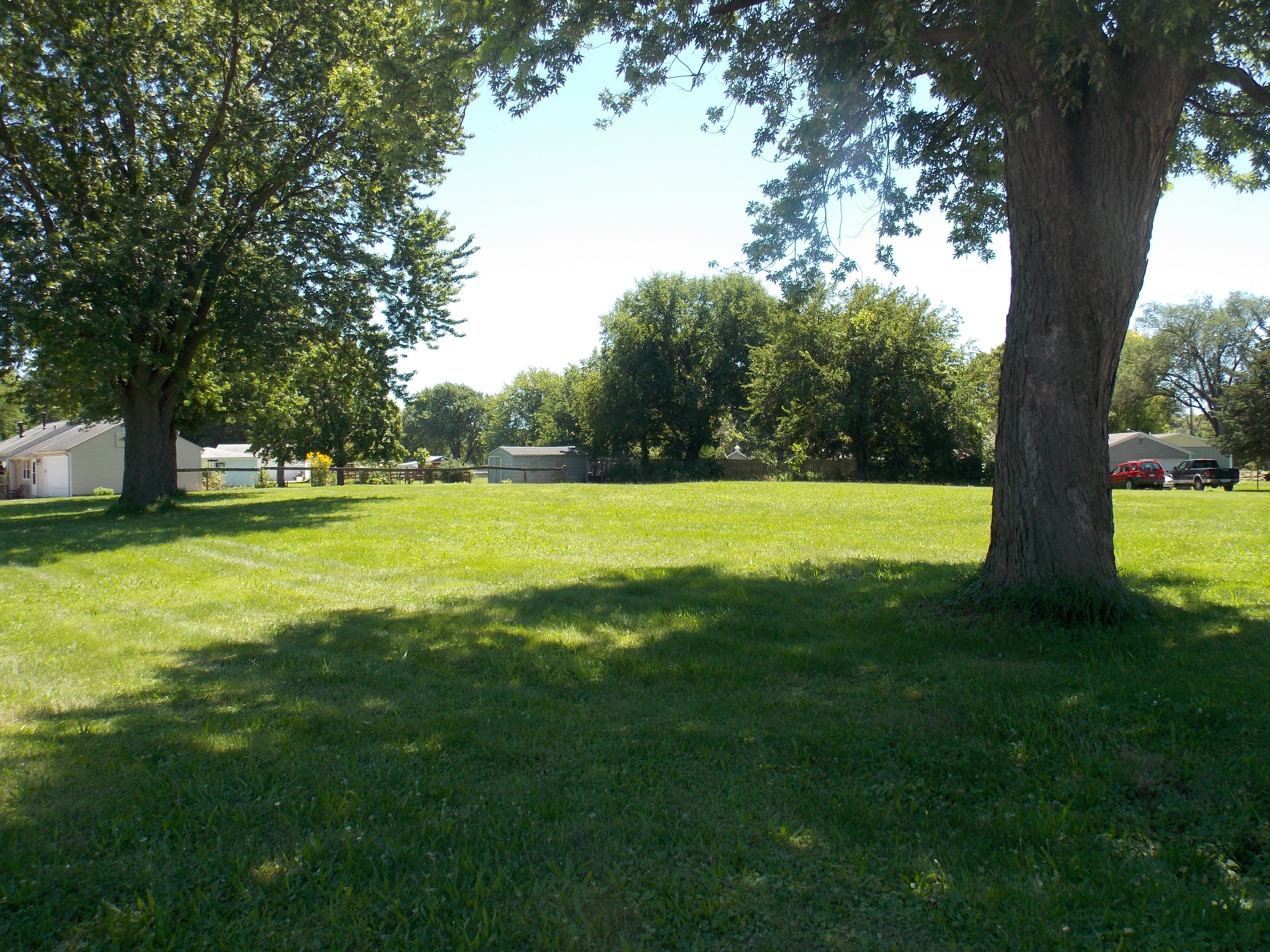 The location of where the Gilruth Schoolhouse was located in Davenport, Iowa. It had been listed on the National Register of Historic Places until it was torn down in 1991.